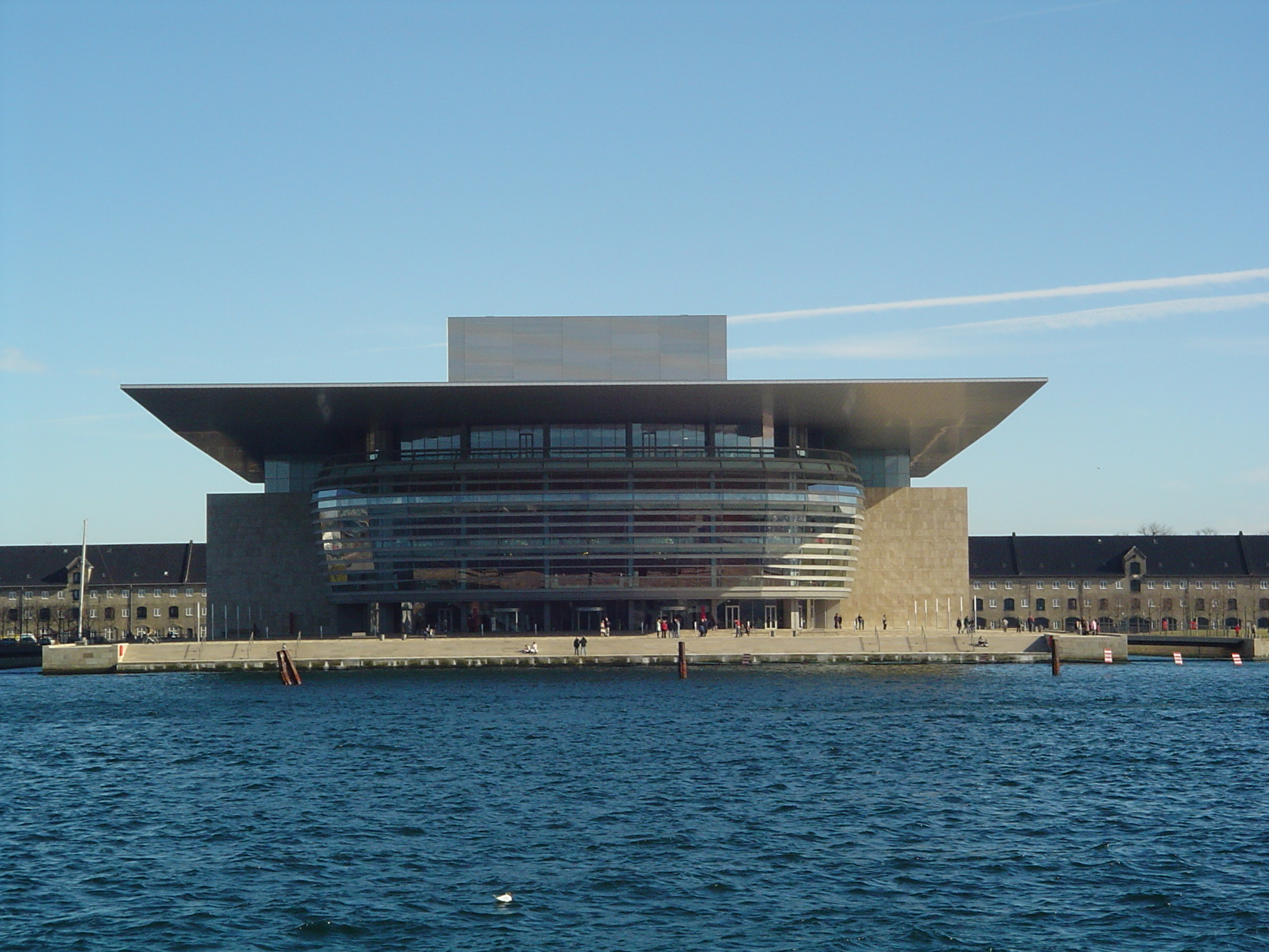 The Copenhagen Opera House. Taken by me on 27/3-2005.